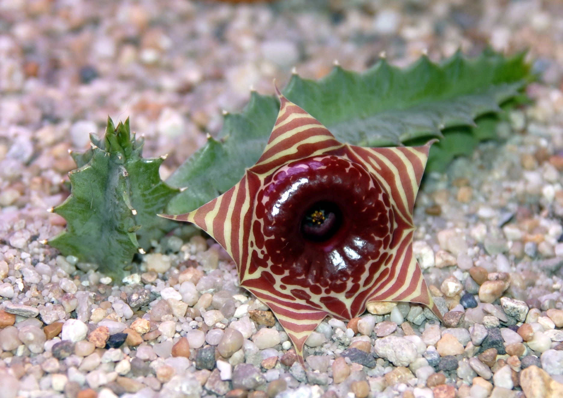 Huernia zebrina flower